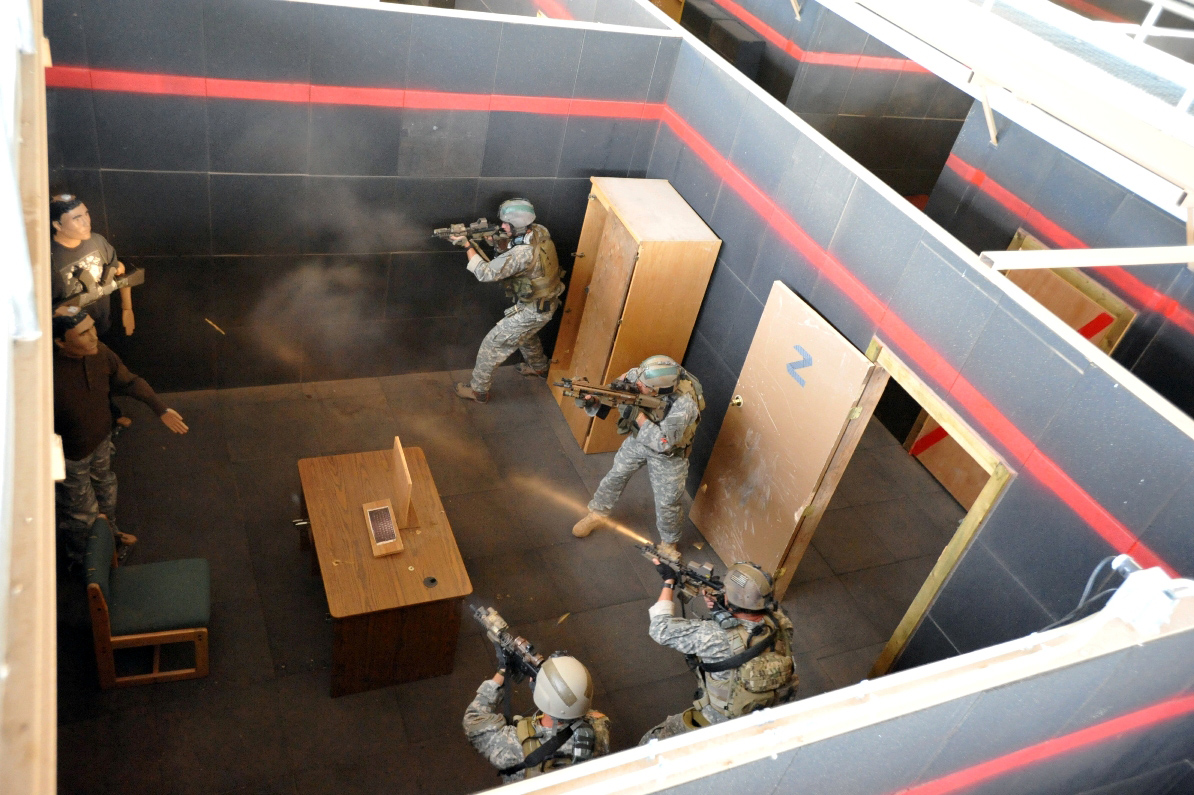 Special Forces Soldiers from 3rd Battalion, 10th SF Group (Airborne), conduct shoot-house operations during a culmination exercise at Fort Carson, Colo., Sept. 30.